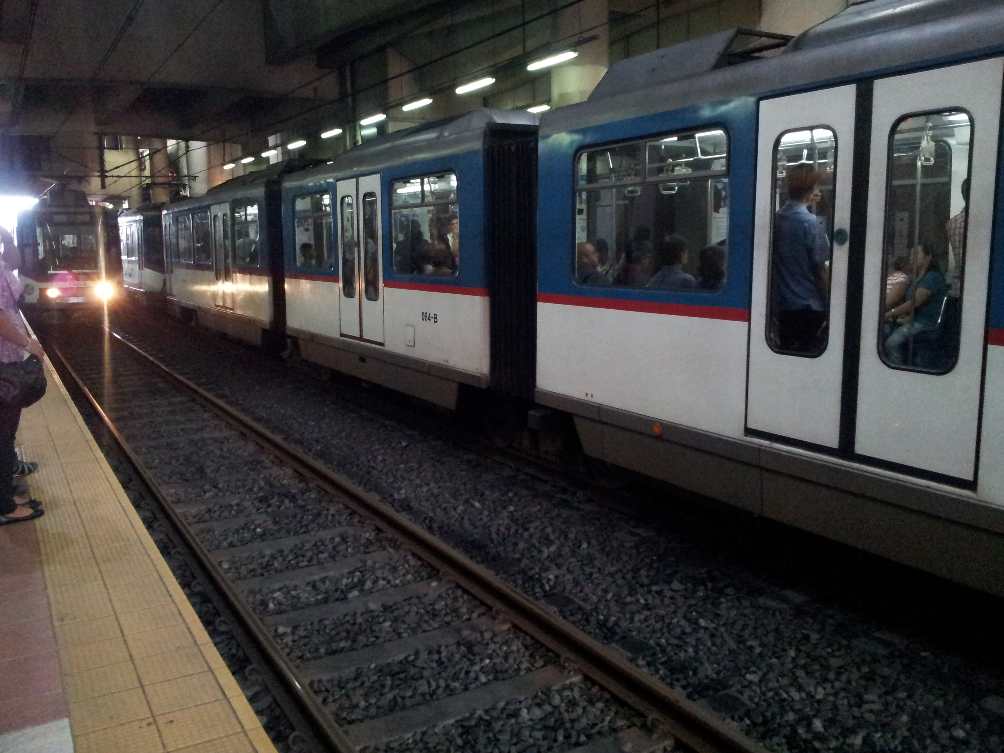 Shot taken from the northbound platform of a train arriving, while a southbound train heading for Taft Avenue waits in the opposite platform